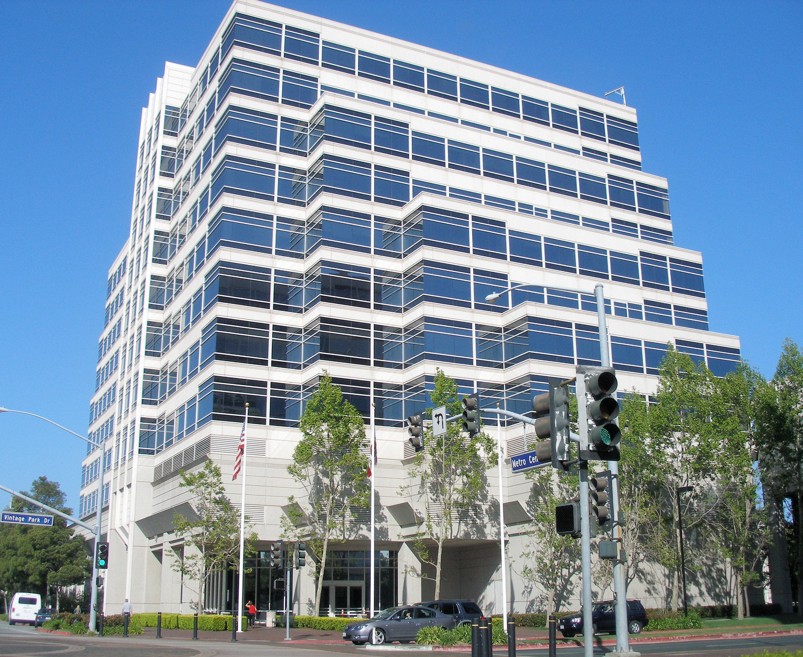 This building at 900 Metro Center Boulevard in Foster City is the current headquarters of Visa Inc. From 2009 to 2012, Visa Inc. was headquartered in downtown San Francisco, but eventually recognized that arrangement was too unwieldy and moved its headquarters back to the Foster City campus at Metro Center.